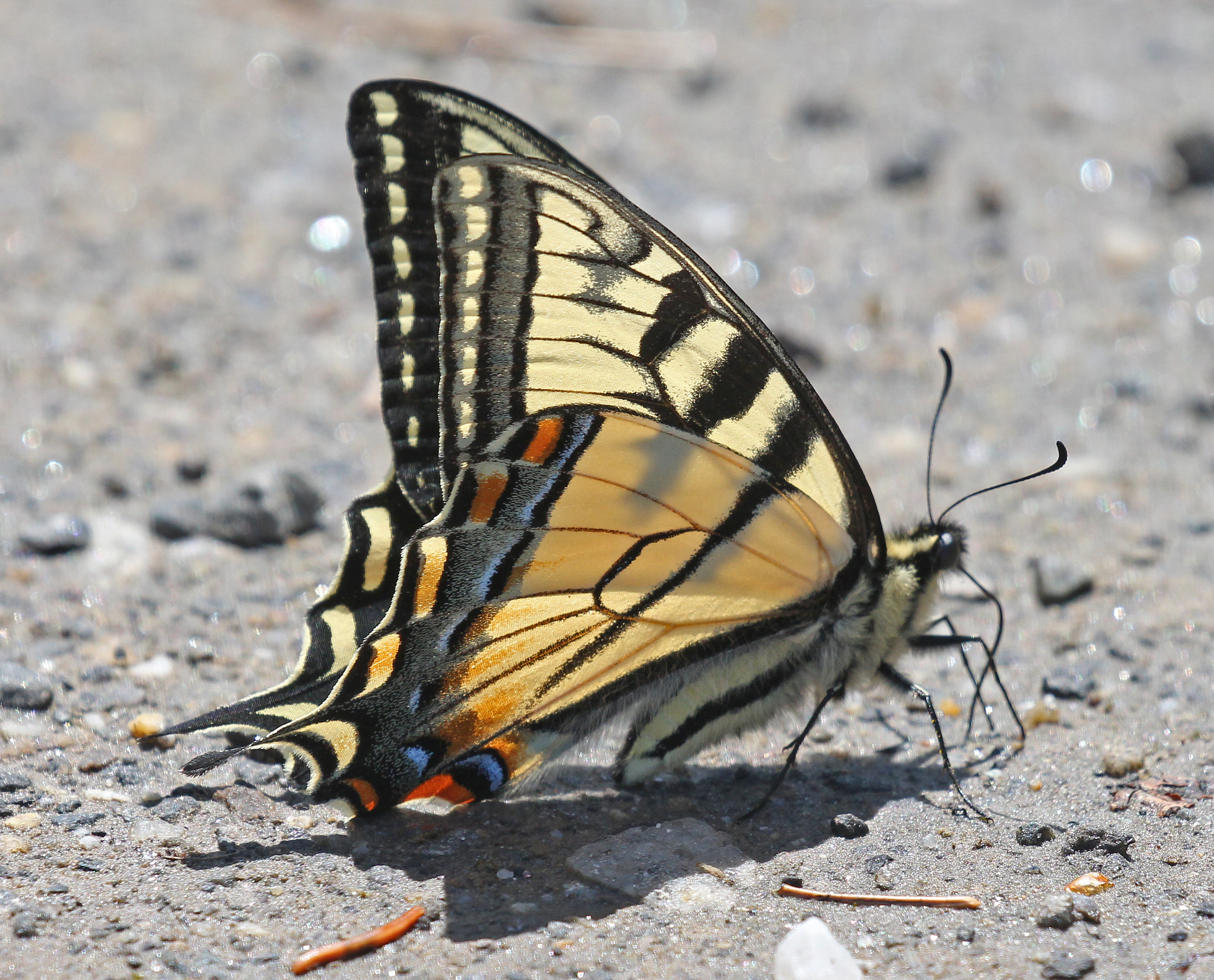 Butterflies of North America